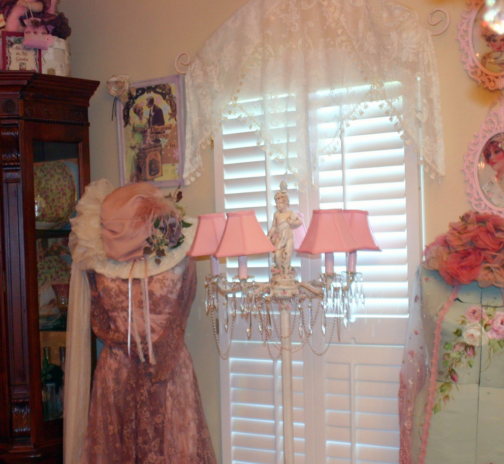 A room decorated in Shabby chic style, with lace, floral fabrics, antiques and vintage accessories, and a white and pastel pink colour scheme